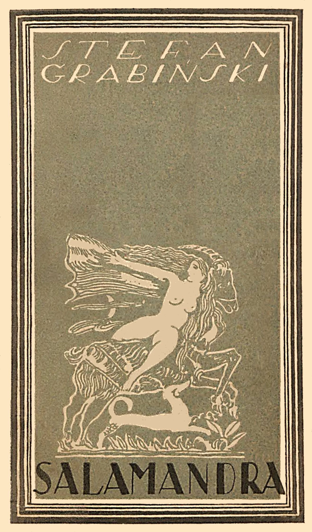 Stefan Grabiński - Salamandra, cover page.